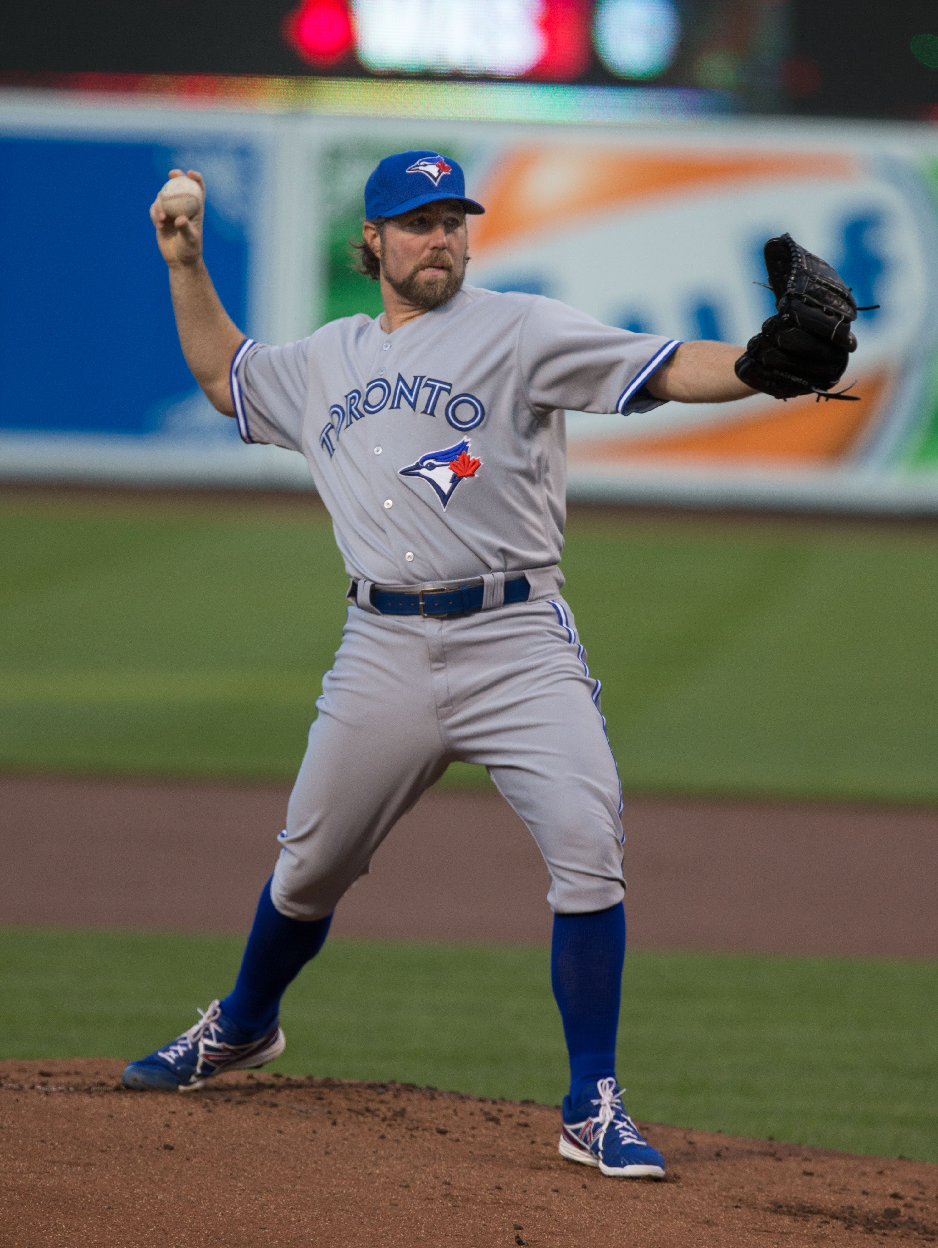 Starting pitcher R.A. Dickey of the Toronto Blue Jays in a game at Oriole Park at Camden Yards on April 23, 2013 in Baltimore, Maryland.